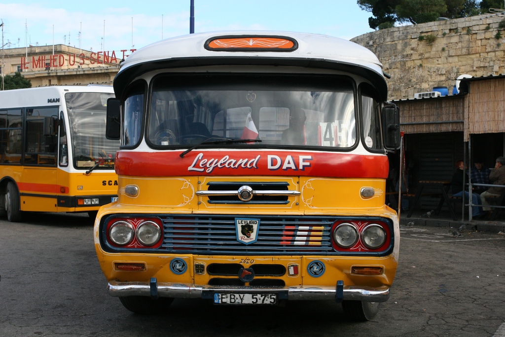 Leyland Panther